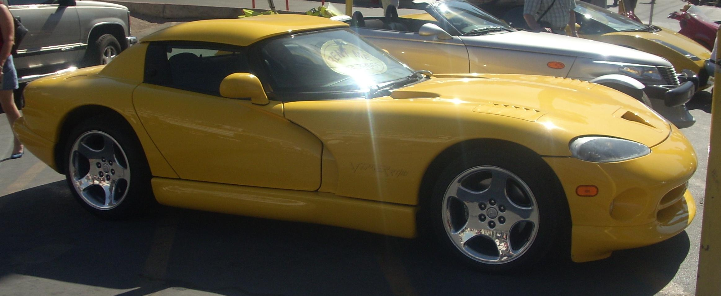 Dodge Viper photographed in Las Vegas, Nevada, USA.